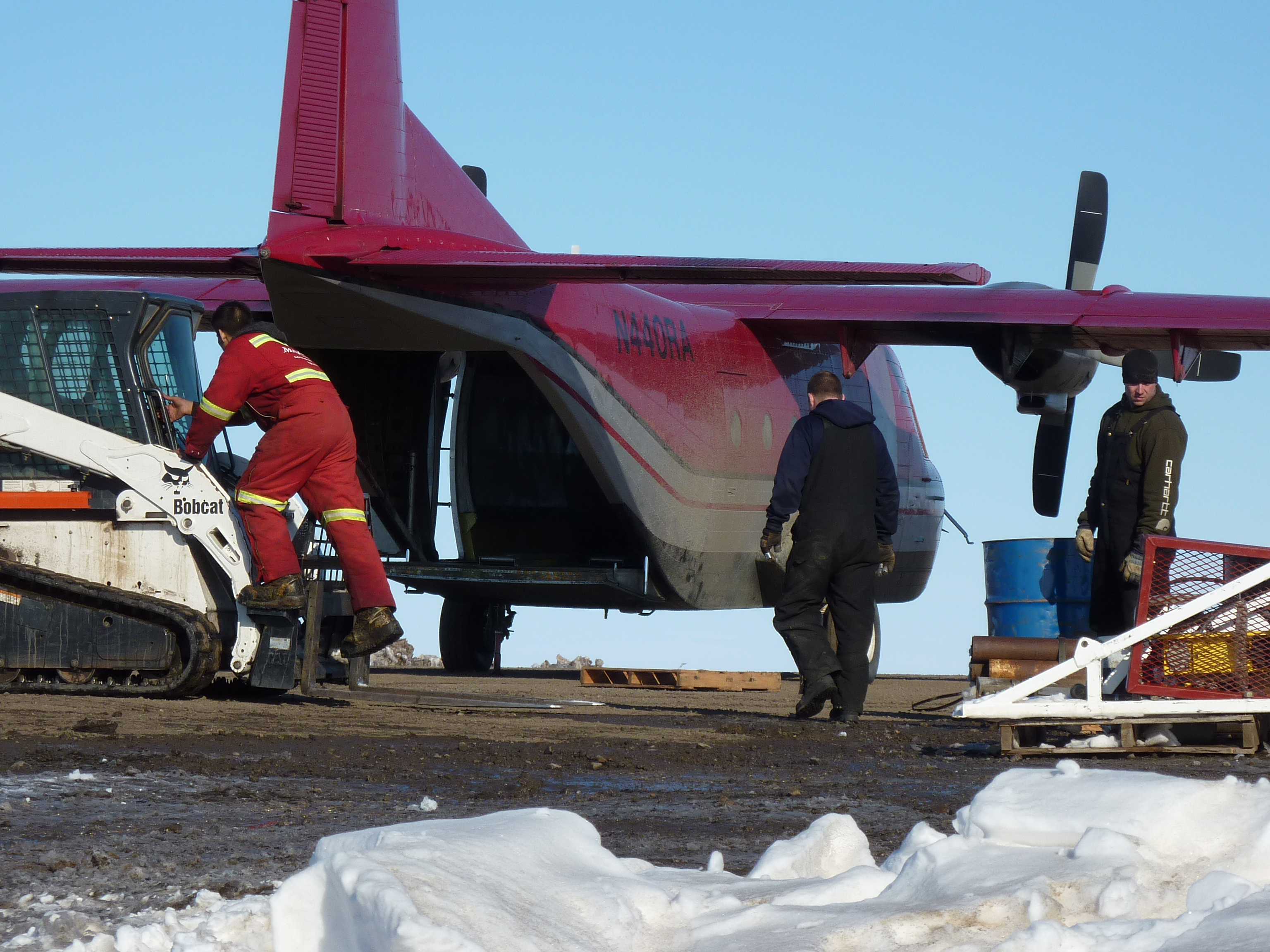 Ryan Air's CASA C212